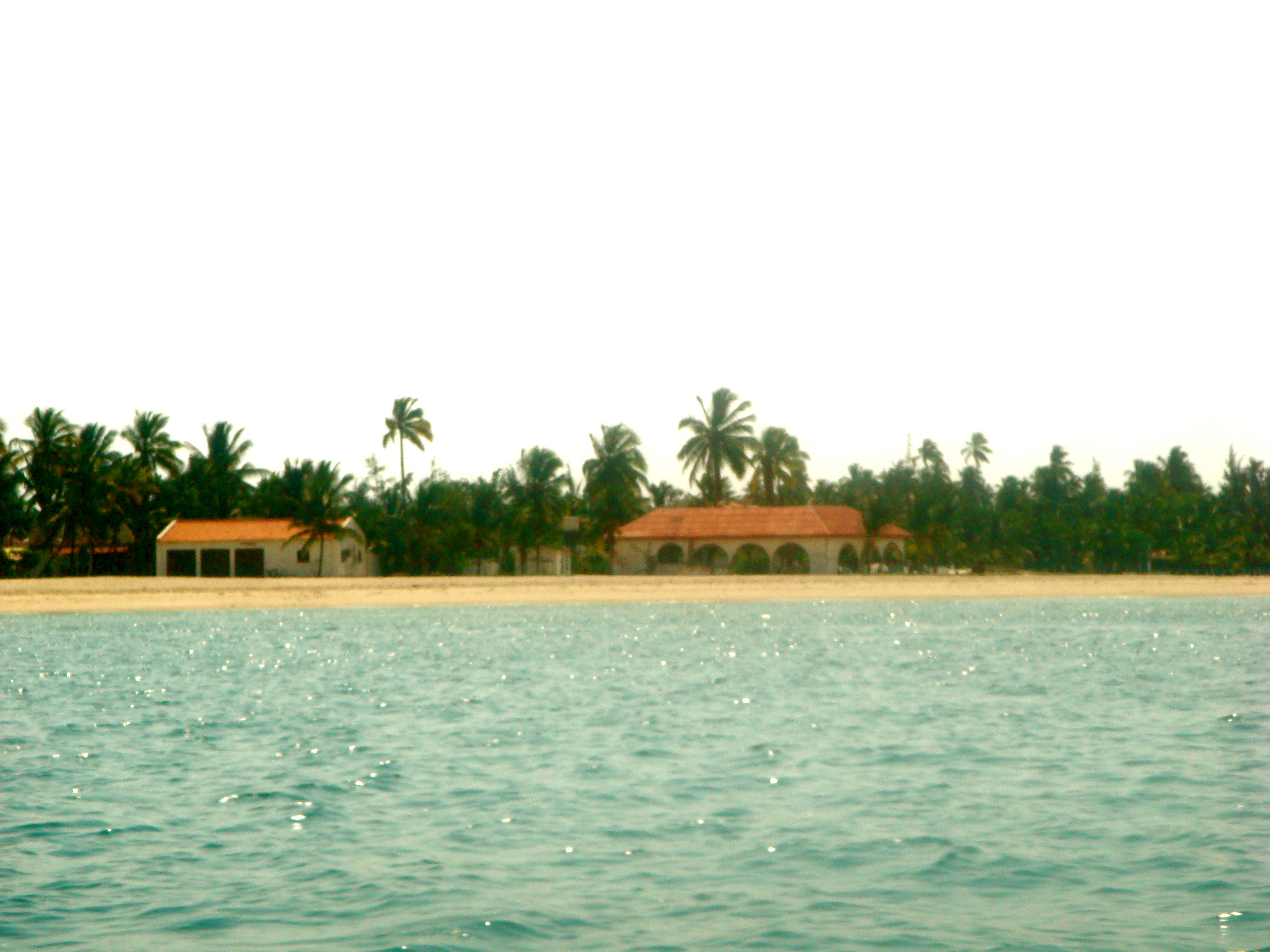 This is a view of Mussulo island from a taxi boat that is crossing the ocean from Luanda, Angola, the capital city in Angola.